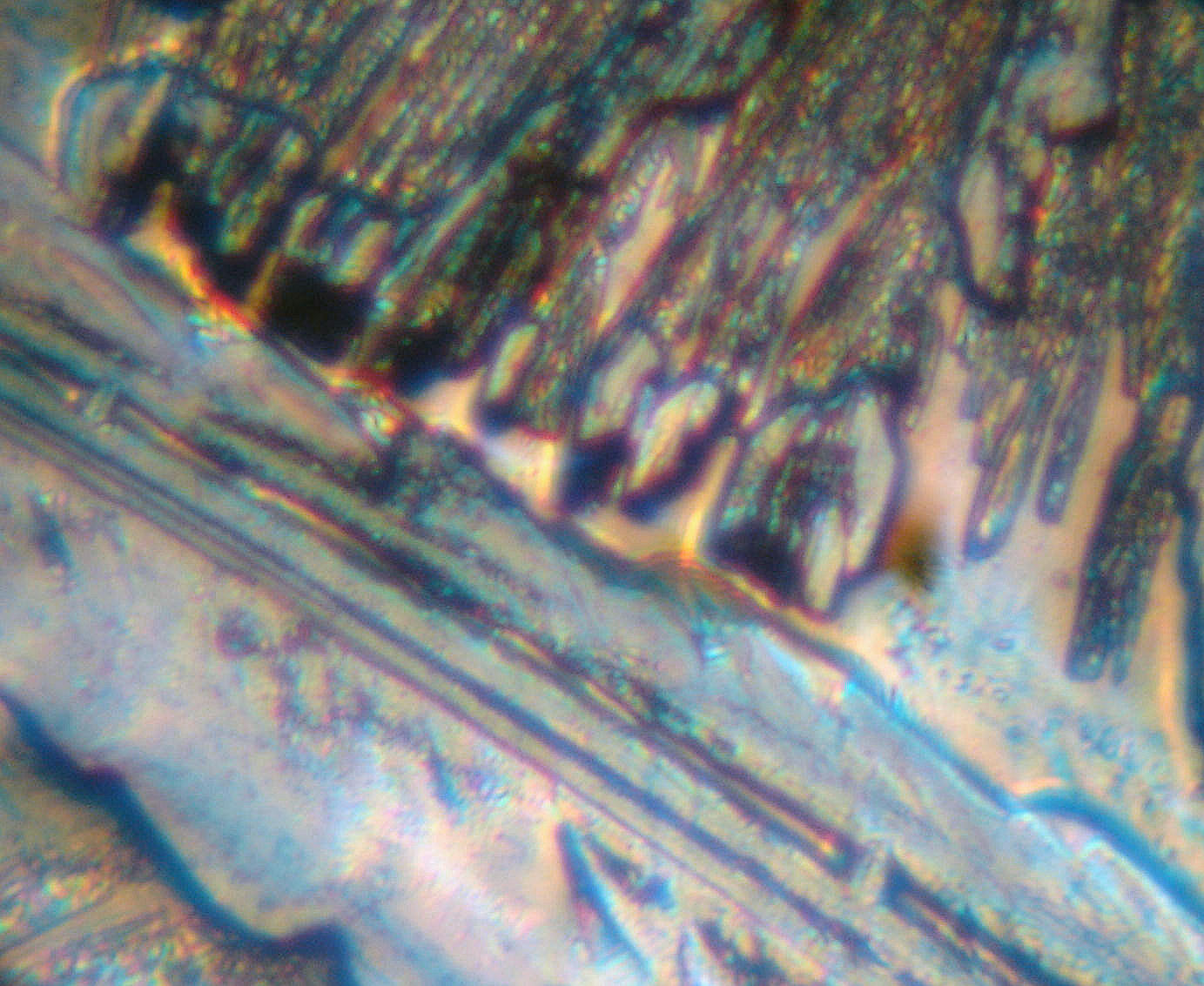 Copper sulphate crystals under at 100x magnification